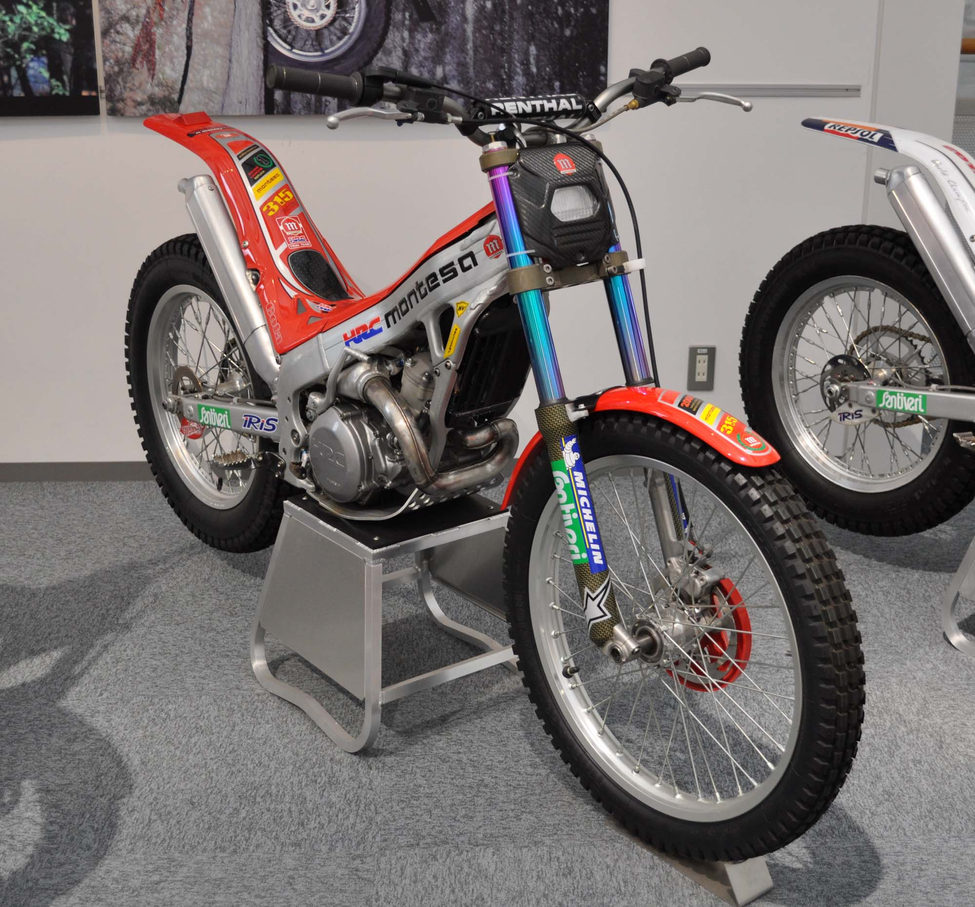 Montesa Cota 315R (Dougie Lampkin, 2002)